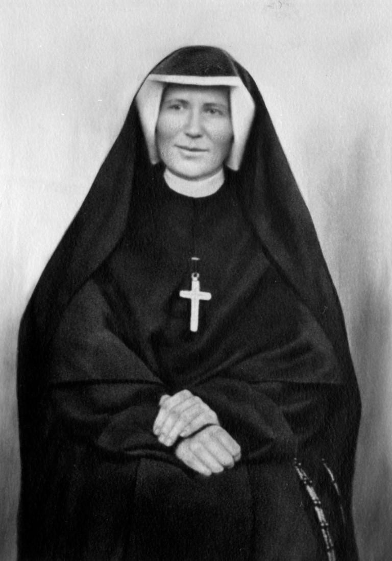 St. Faustina Kowalska before 1938